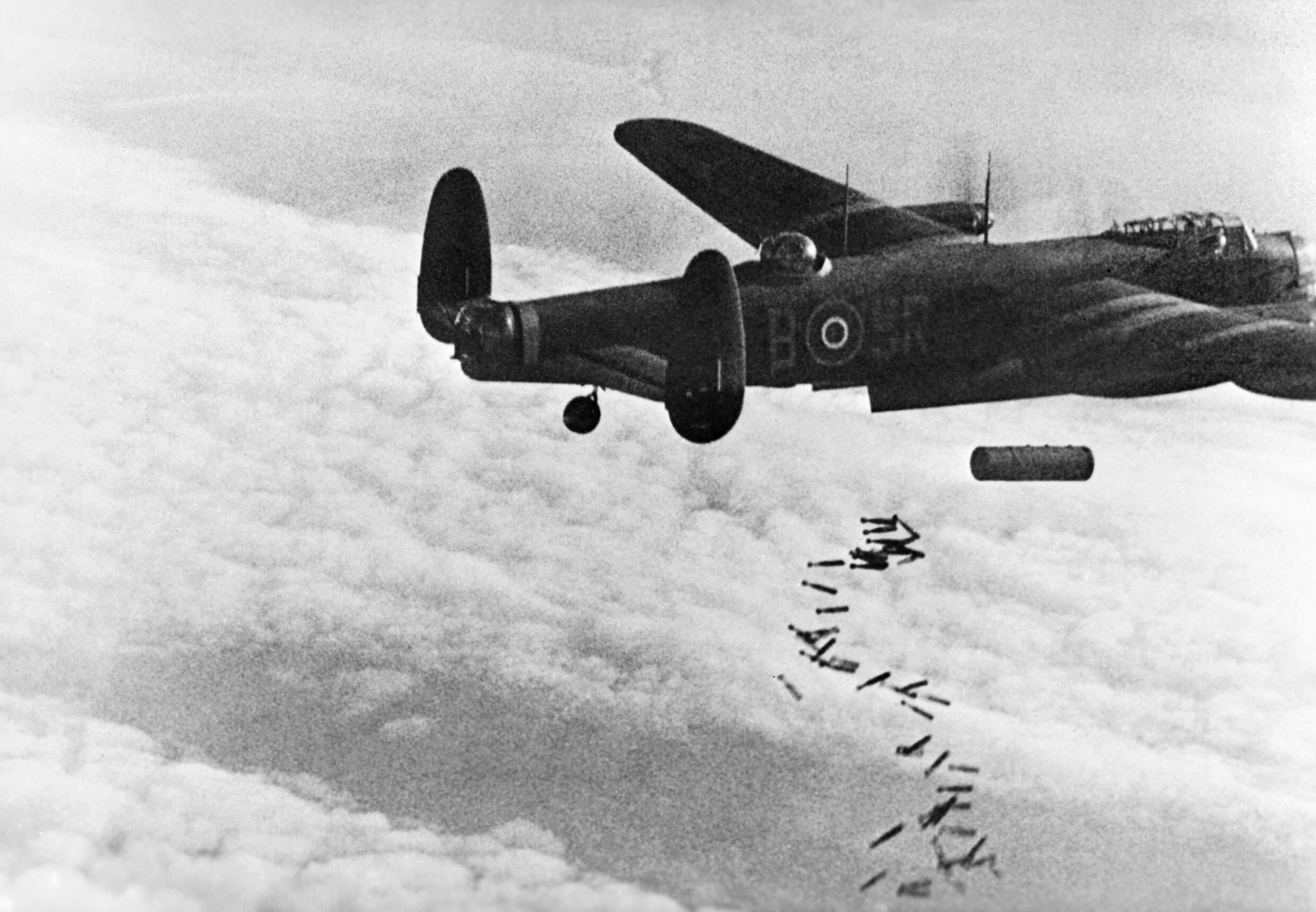 Still from film shot by the RAF Film Production Unit during Operation HURRICANE. Avro Lancaster B Mark I, NG128 'SR-B', of No. 101 Squadron RAF, piloted by Warrant Officer R B Tibbs, releases a 4,000-lb HC bomb ('cookie') and 30-lb incendiary bombs over the target during a special daylight raid on Duisburg. Over 2,000 sorties were dispatched to the city during 14-15 October 1944, in order to to demonstrate Bomber Command's overwhelming superiority in German skies. Note the large aerials on top of the Lancaster's fuselage, indicating that the aircraft is carrying 'Airborne Cigar' (ABC), a jamming device which disrupted enemy radio telephone channels.